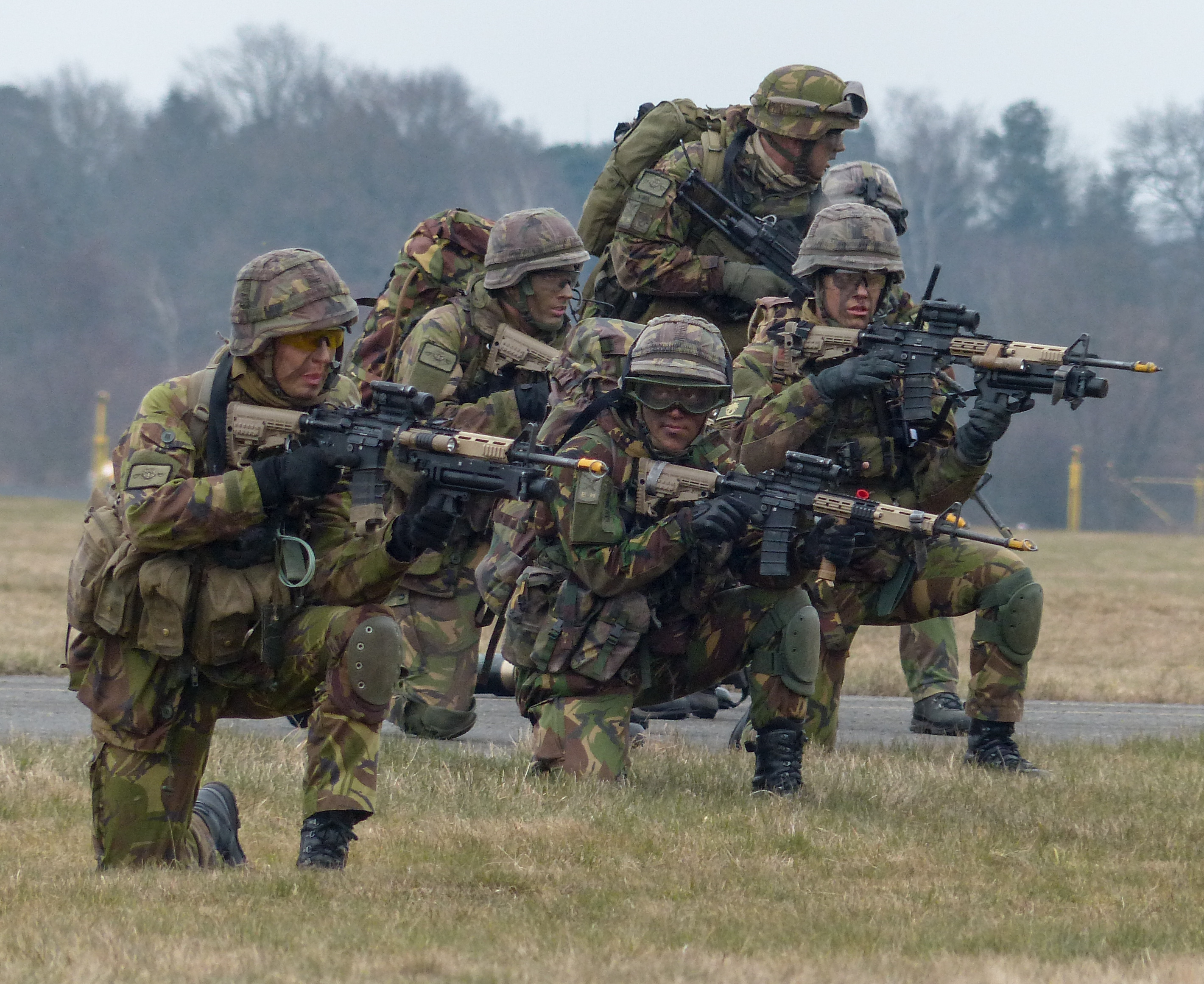 From 18-29 march a big exercise, Cerberus Guard was held by Dutch Air Mobile forces in conjunction with the Royal Netherlands Air Force. Objective was to exercise in urban areas as recent wartime experiences in Iraq and Afghanistan had necessitated this kind of exercise. On the 20th march there was a mock attack on the defunkt Twenthe Airbase. From there the units mingled with the population in the direct vicinity of the base. The photos were taken during a cold, snowy, overcast day with cold gusts of wind and subzero temperatures. The FZ200 coped well with the environment.